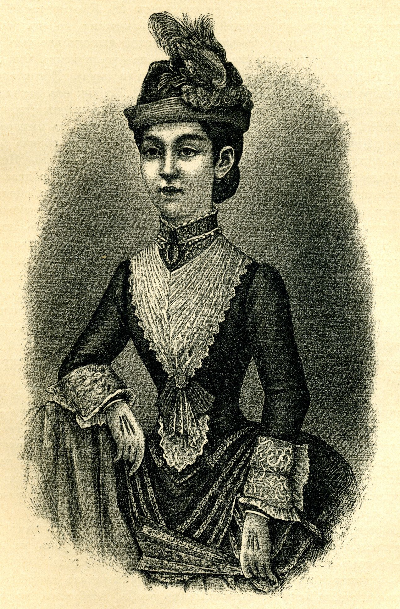 Empress Shōken (Haruko). Image from the book "Japan And Japanese" (1902). Page 51